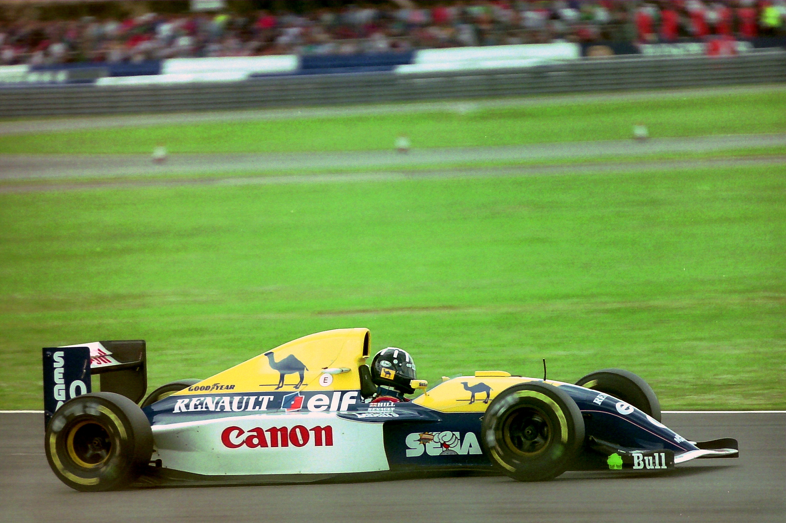 Damon Hill - Williams FW15C at the 1993 British Grand Prix